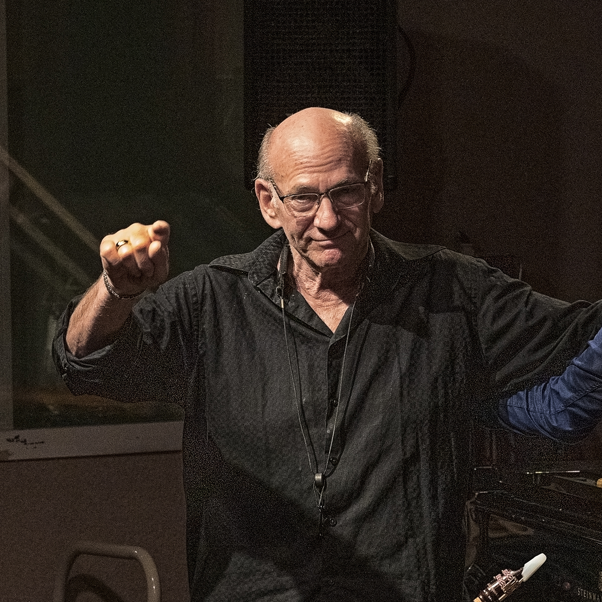 US-american jazz saxophon player may 2019 at Loft, Cologne, with Nathan Ott 4tet.